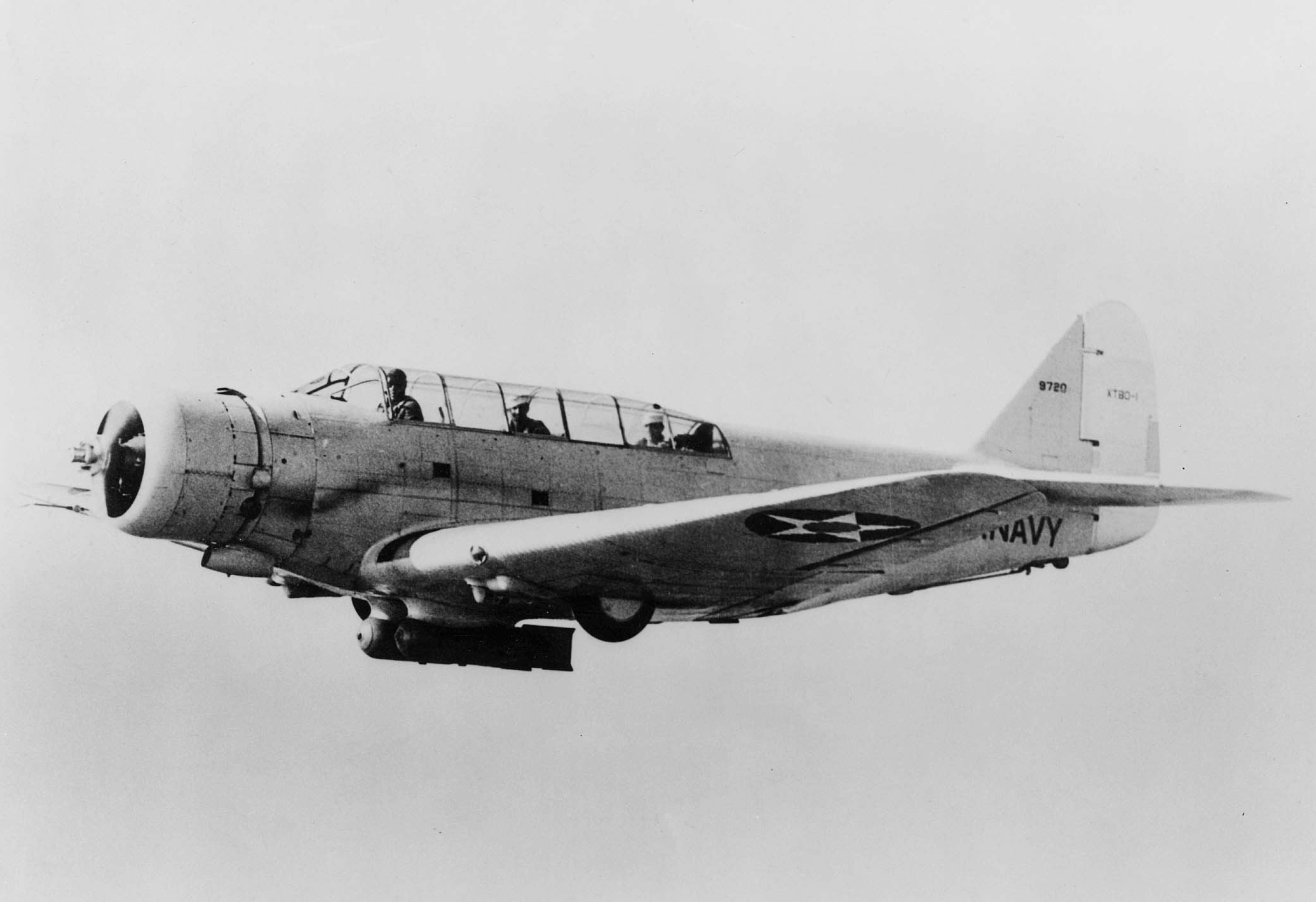 The U.S. Navy Douglas XTBD-1 Devastator (BuNo 9720), with landing gear retracted and flaps raised, pictured during a test flight at NAS Anacostia, Washington D.C. (USA). Note the bombs underneath the fuselage. Anacostia was the location of the U.S. Navy's flight testing during the period in which this photograph was taken. This particular aircraft made its maiden flight on 15 April 1935, and underwent performance trials at NAS Anacostia, NAS Norfolk, and NPG Dahlgren, Virginia (USA) until November 1935. After completing carrier trials on board USS Lexington (CV-2) off the coast of California, the aircraft returned to the Douglas plant in 1936 for overhaul and minor modifications, including a redesigned canopy. Returned to the U.S. Navy in December 1936, it was employed in flight testing until scrapped at NAS Norman, Oklahoma, on 10 September 1943.